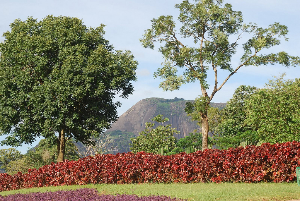 Millennium Park (Abuja)